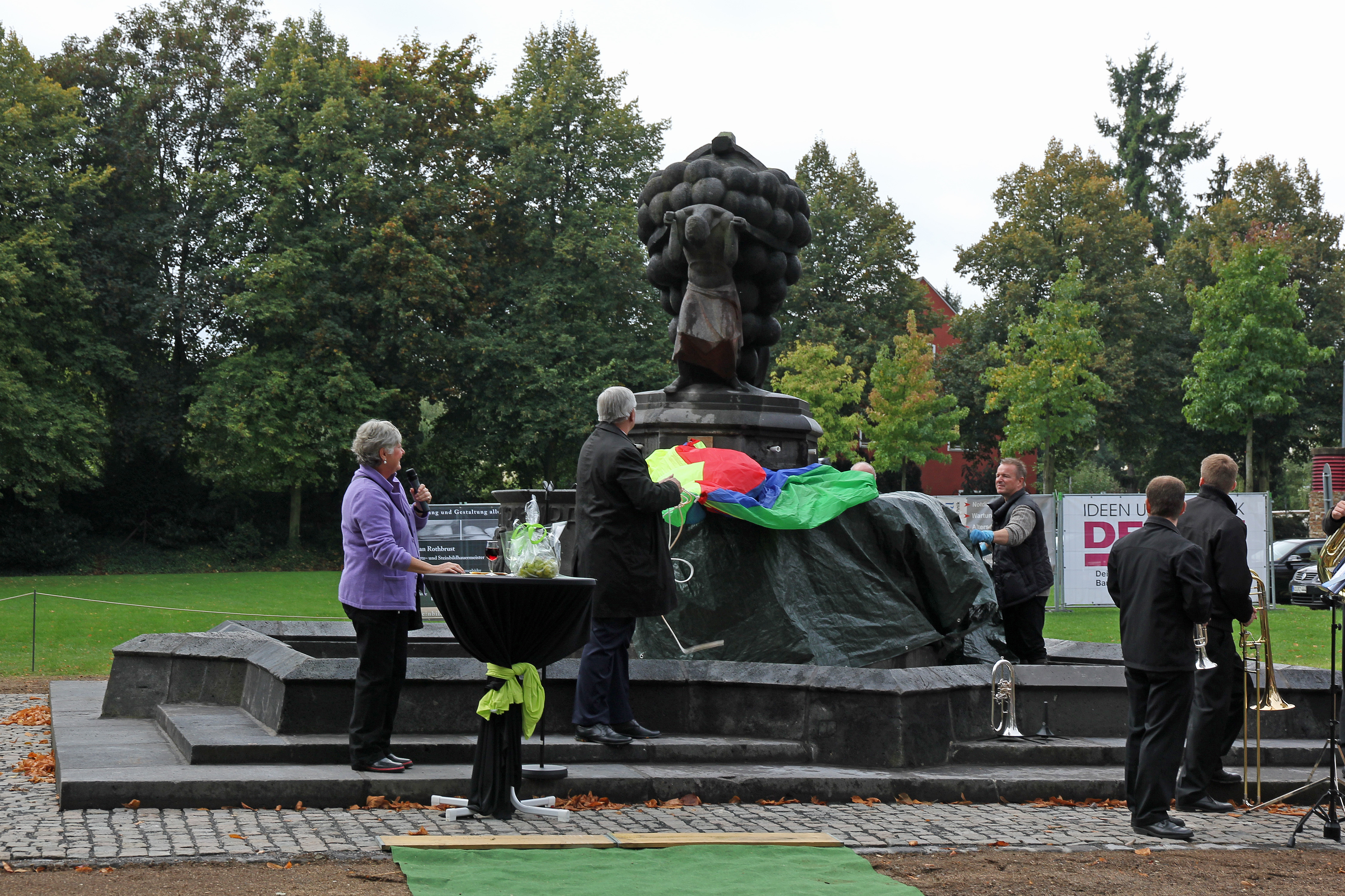 Inauguration of the wine fountain in the rhine gardens of Koblenz